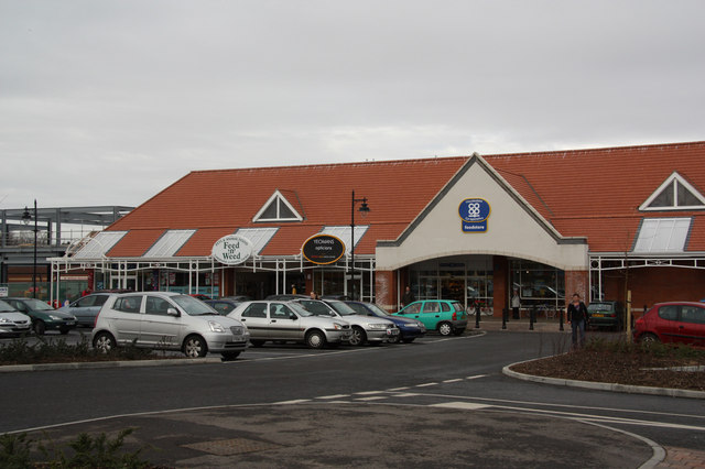 Birchwood Co-op Shopping development on the Birchwood